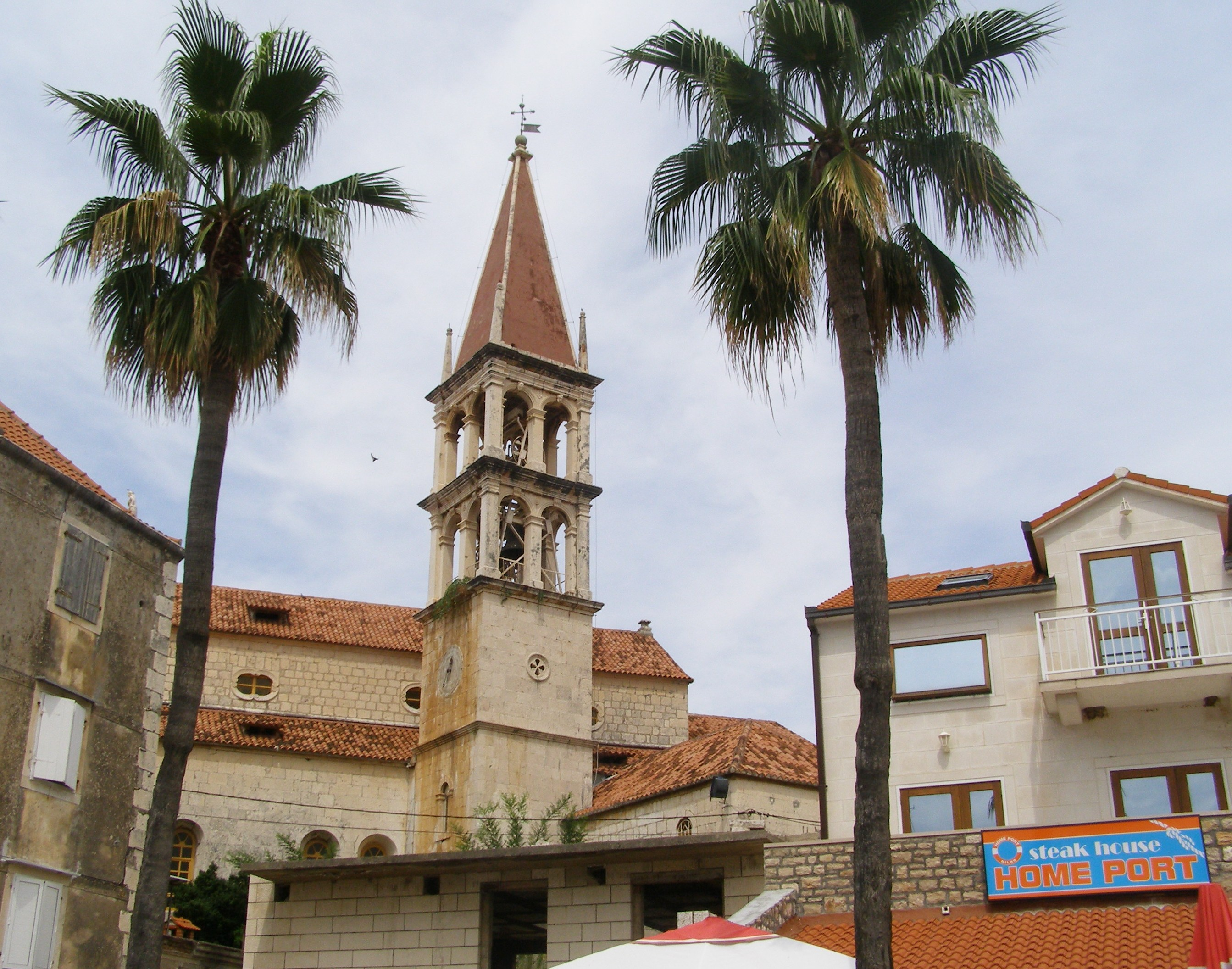 Milna Church, Brac, Croatia